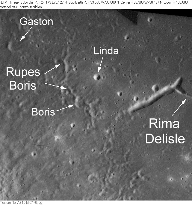 Boris Area